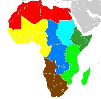 Geo-political map of Africa divided for ethnomusicological purposes, after Alan P. Merriam, 1959.